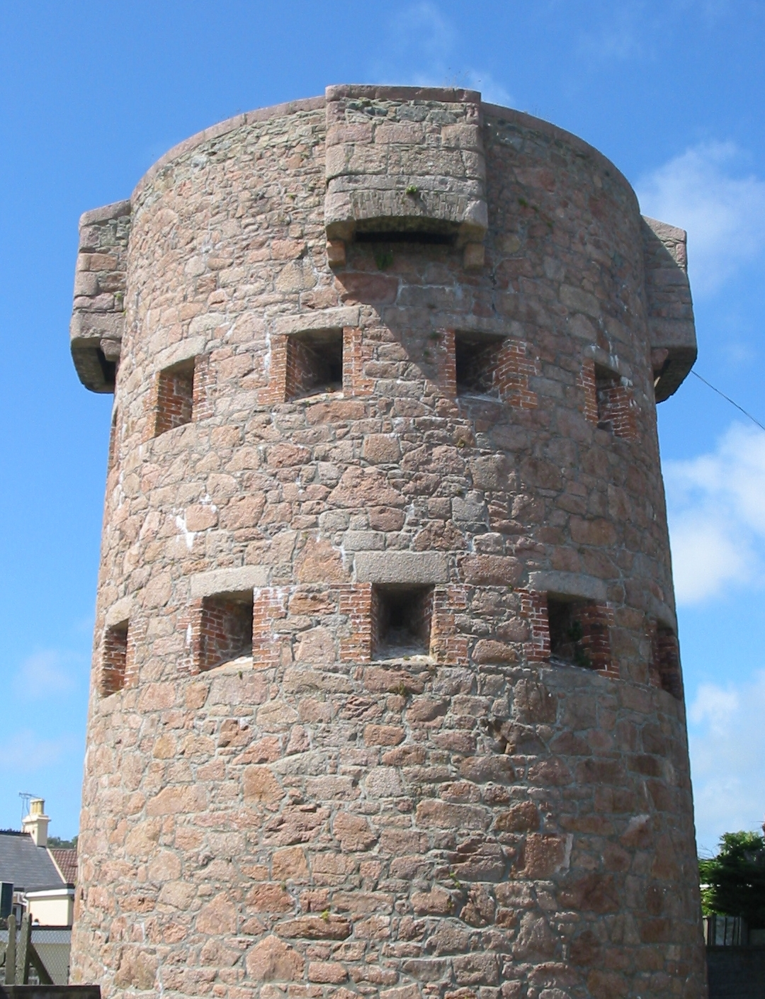 A Jersey round tower (also known inaccurately as a Martello tower) in Jersey Photo taken by Man vyi with Canon PowerShot A40 on 4/6/2005